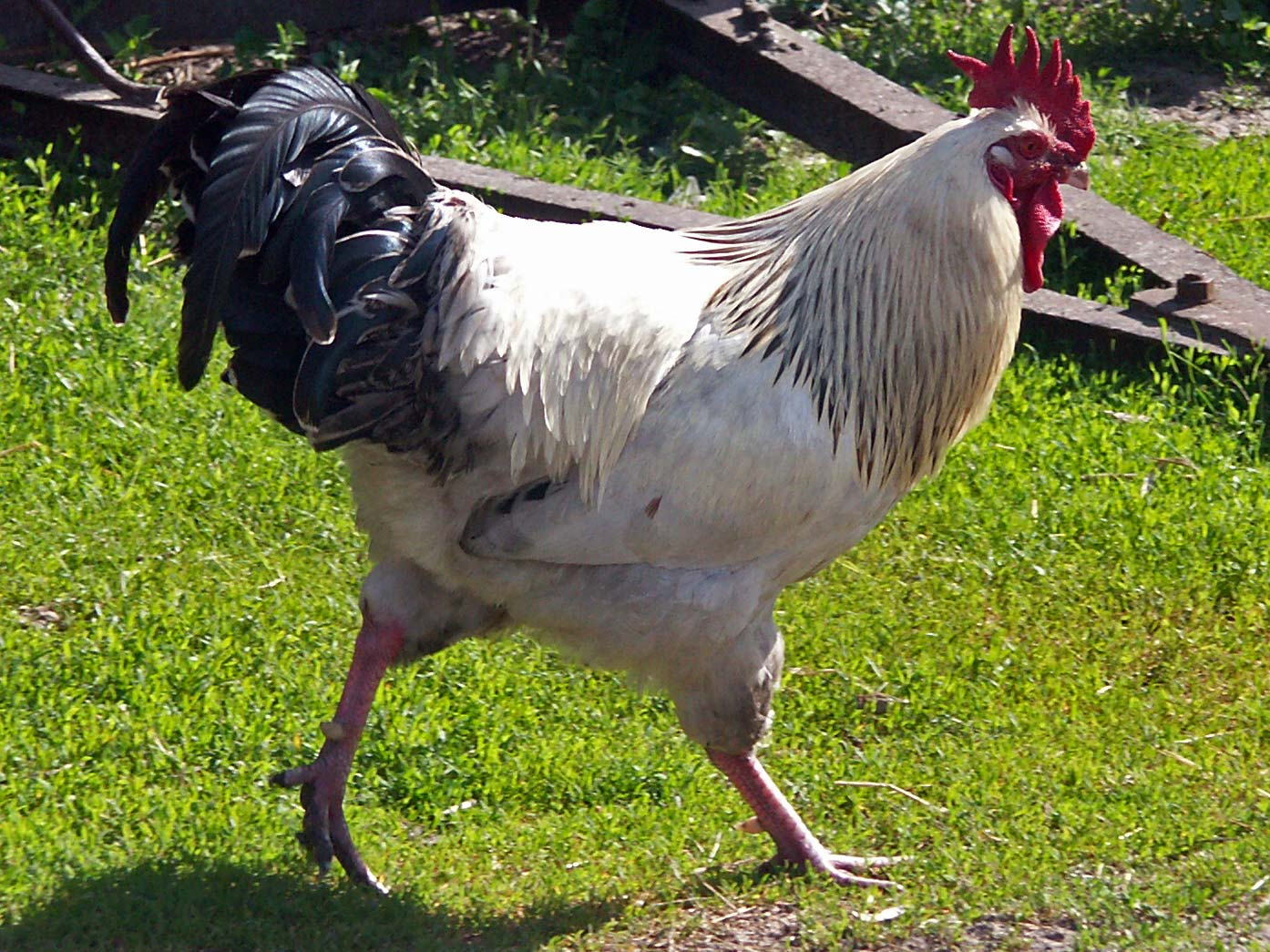 Rooster